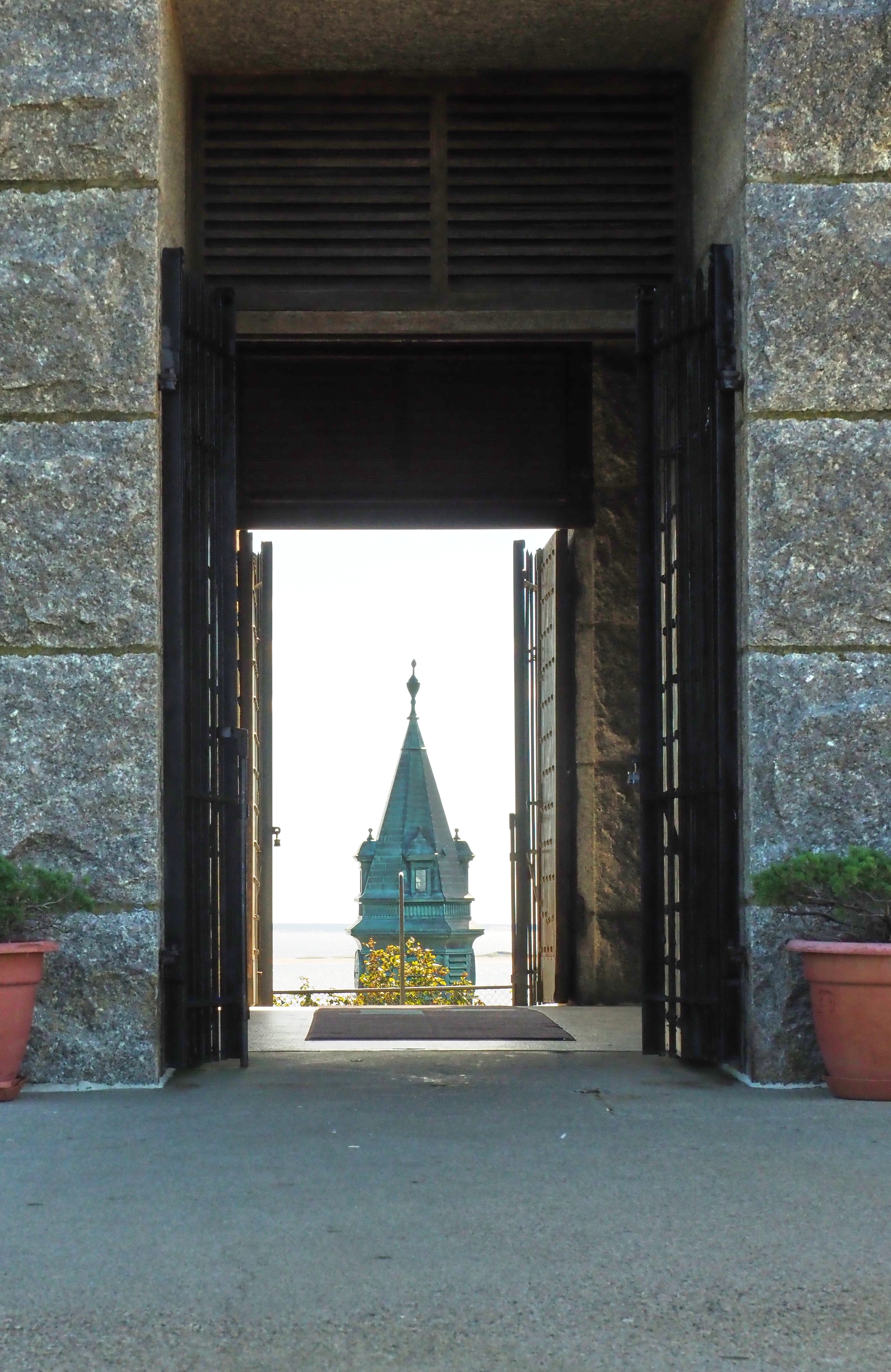 View of Provincetown, Mass town hall, seen through the base of the Pilgrim Monument